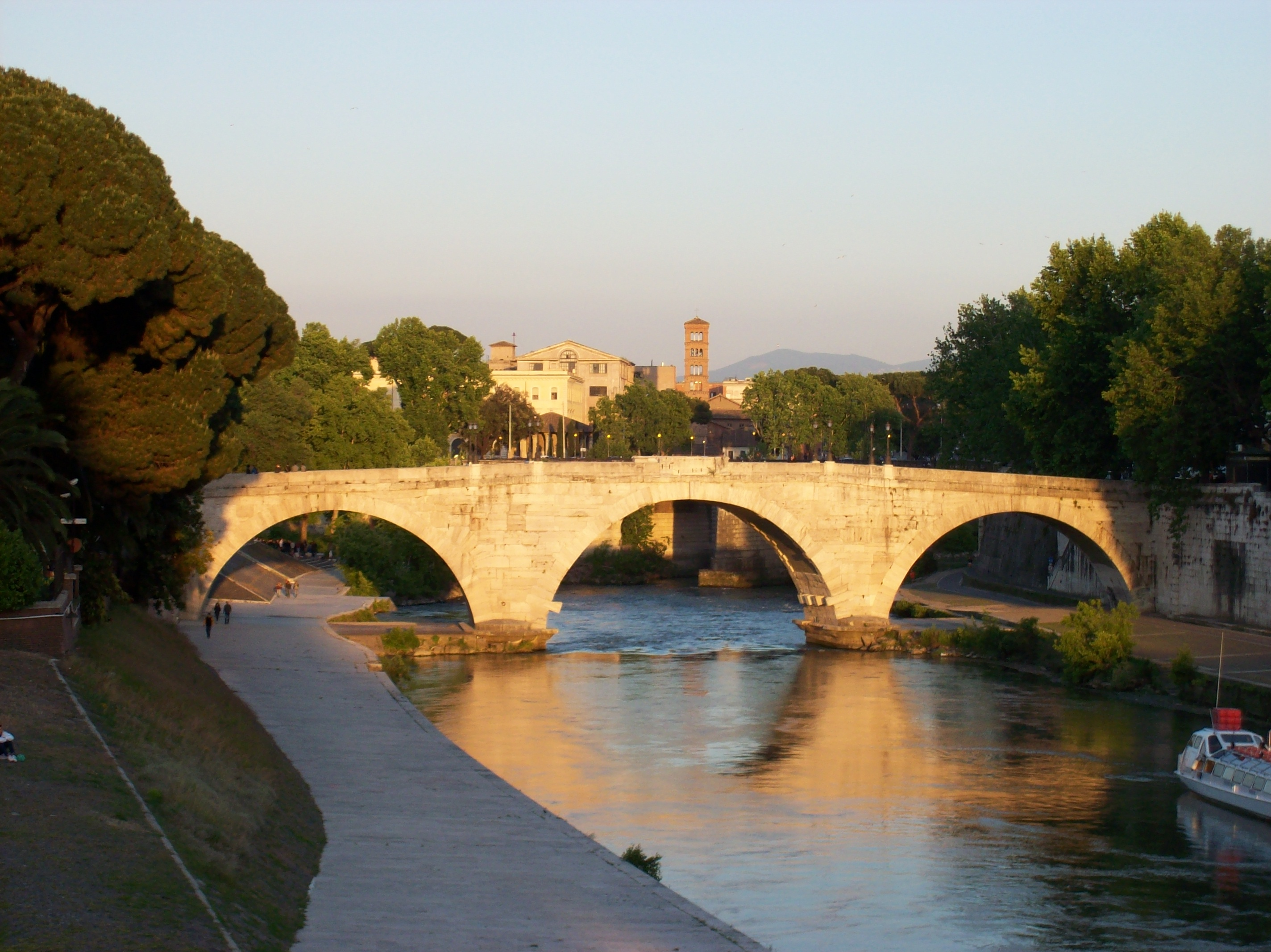 Ponte Cestio in Rome as seen from Ponte Garibaldi